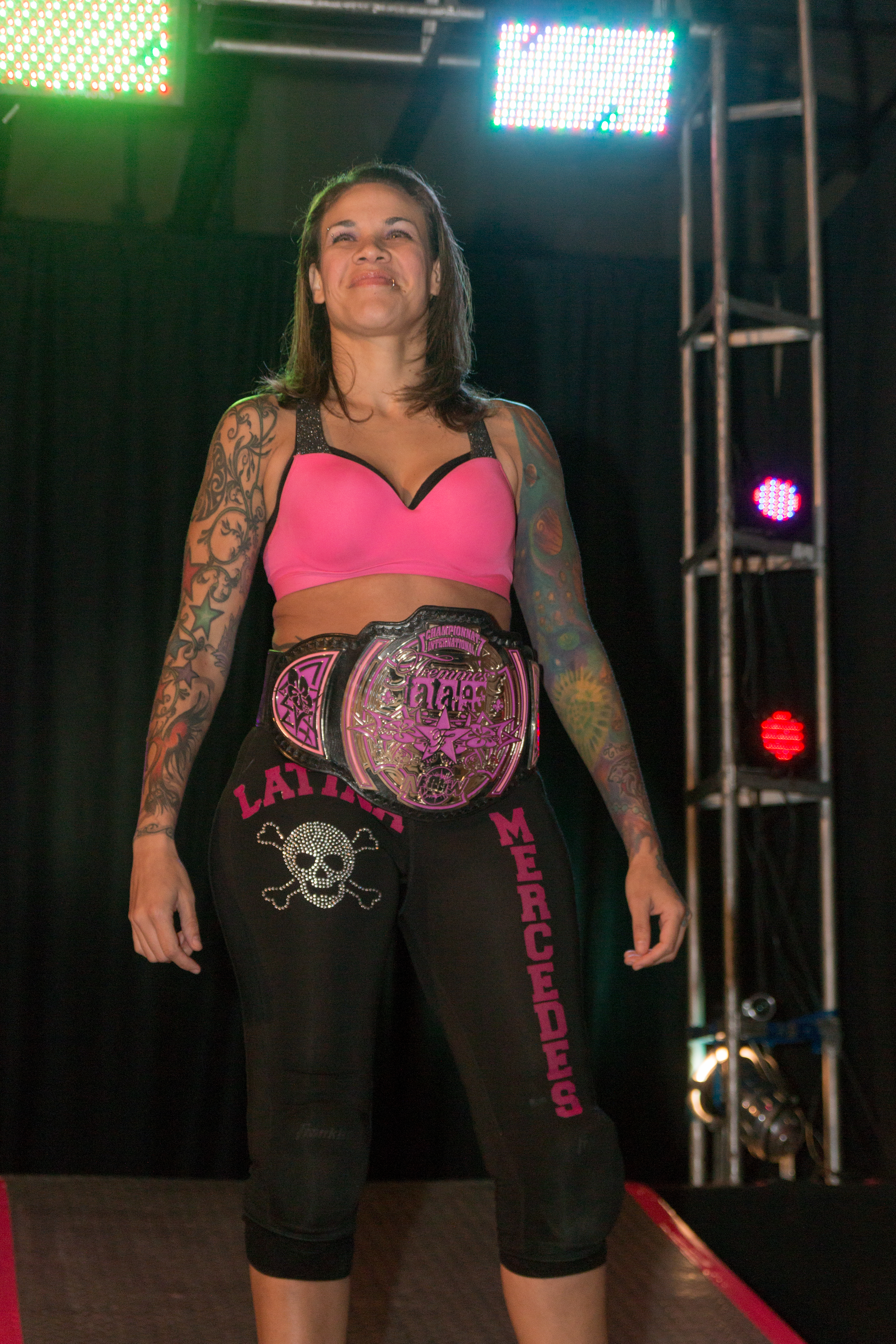 Independent wrestler Mercedes Martinez making her way to the ring with the nCw Femmes Fatales Championship belt around her waist, at Femme Fatales XIV in Montreal, QC